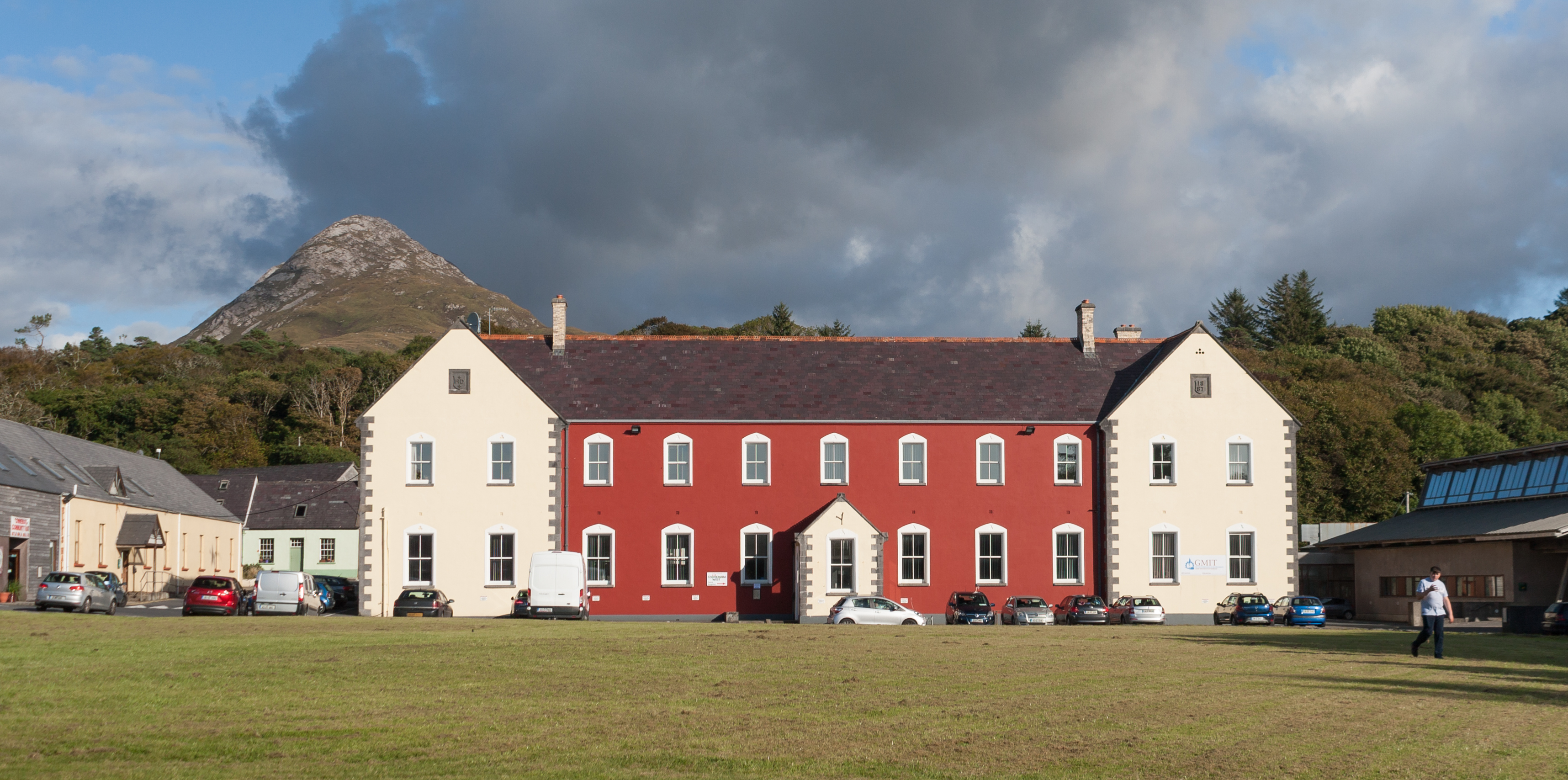 Former St. Joseph's Industrial School for boys of the Christian Brothers, built in 1886–1887 after the designs by the architect William Hague (1836–1899). The school closed in 1973. The building houses now the National Centre for Excellence in Furniture Design and Technology. (See DIA record and NIAH entry.)